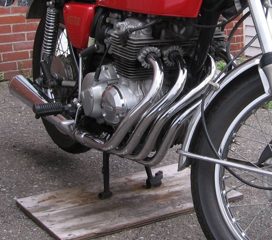 A view of the swooping exhaust header of a 1975 Honda CB400F motorcycle.